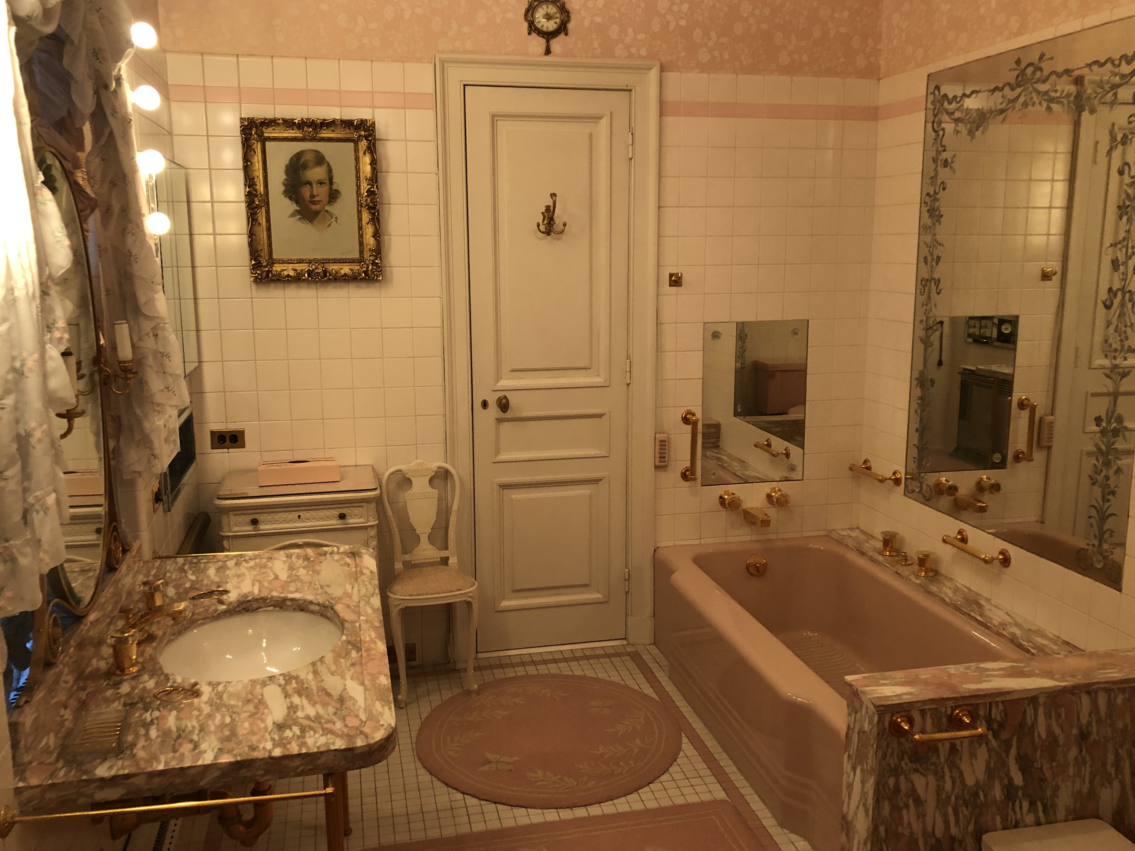 at Hillwood Estate, Museum and Gardens in Washington, DC